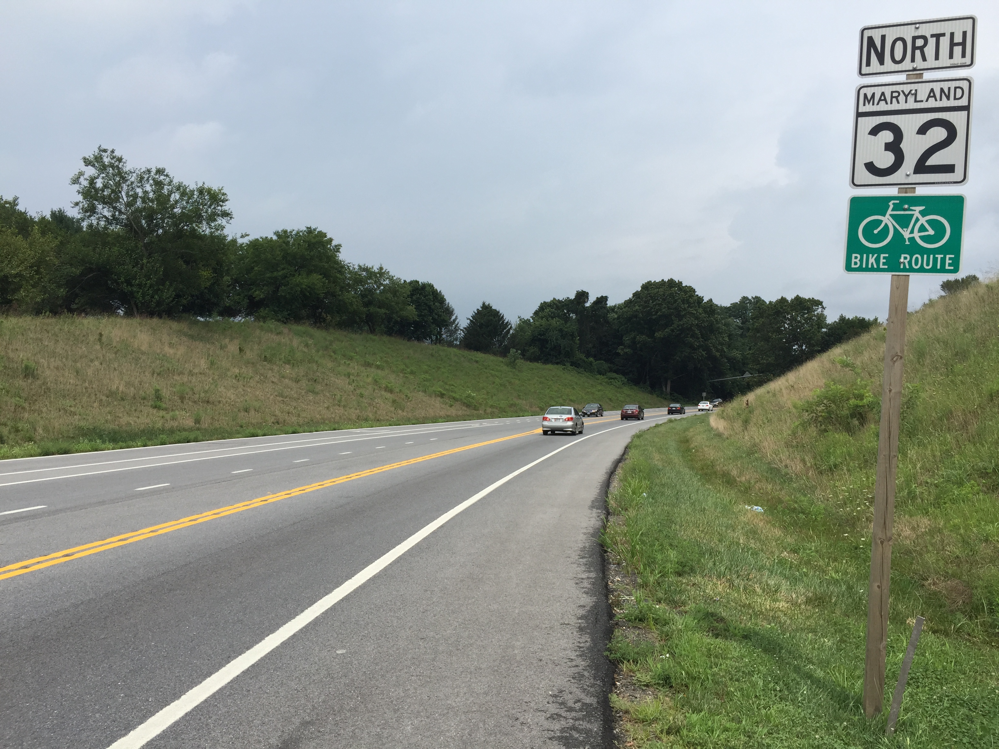 View north along Maryland State Route 32 (Sykesville Road) at Raincliffe Road in Sykesville, Carroll County, Maryland